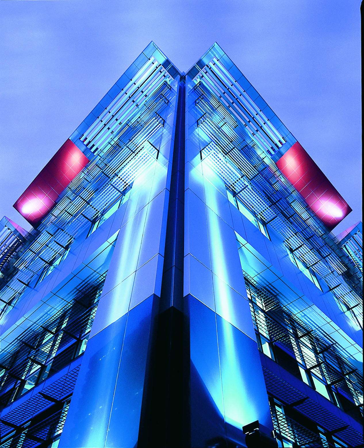 Mincom World Headquarters, Brisbane